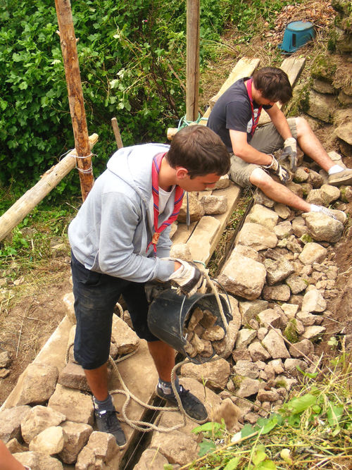 Château de Magnat - Pierre sèche 2012